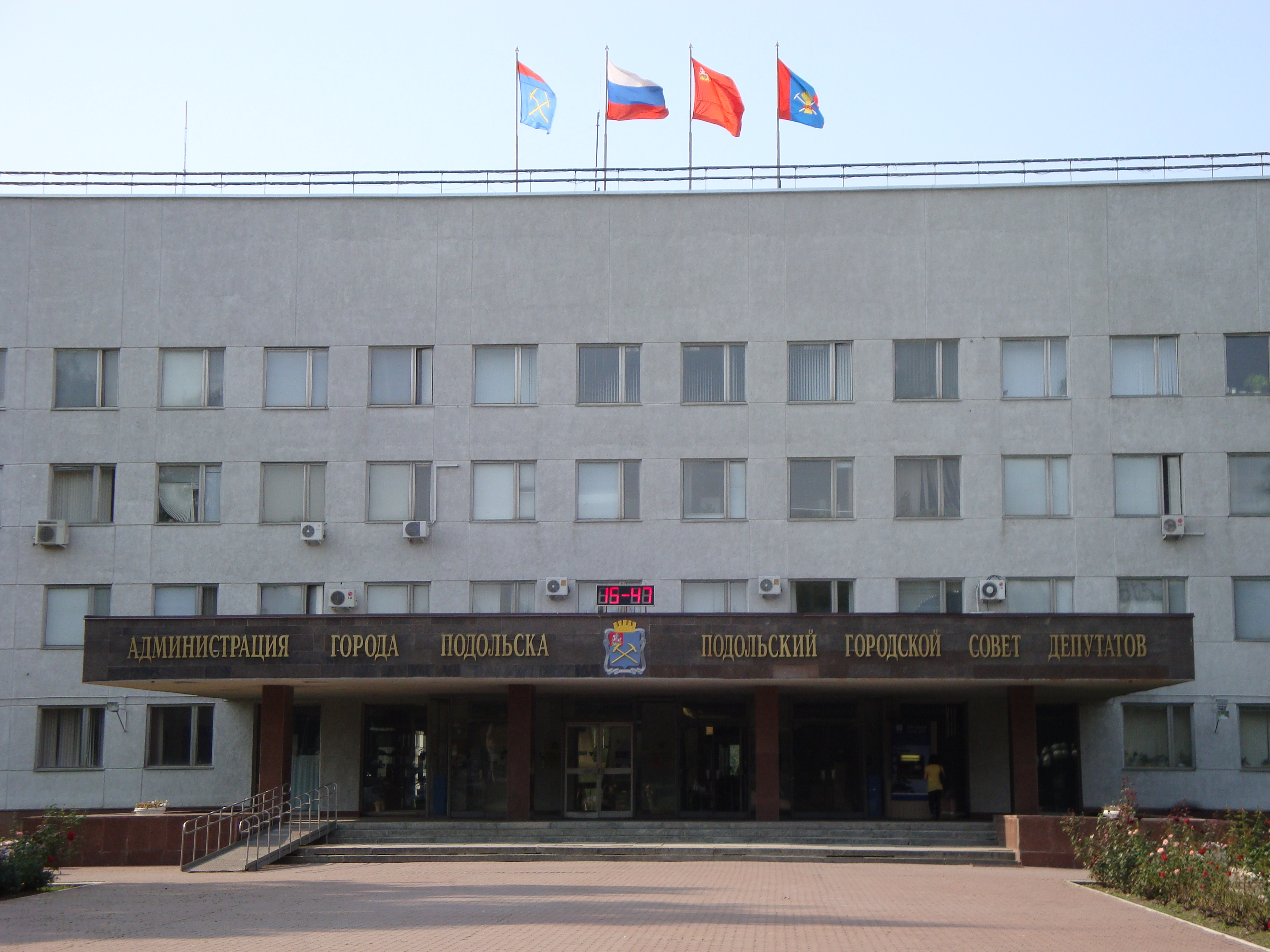 Administration of Podolsk (Moscow Oblast)